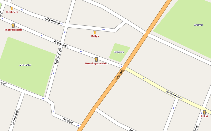 A map of Hressingarskálinn from OpenStreetMap